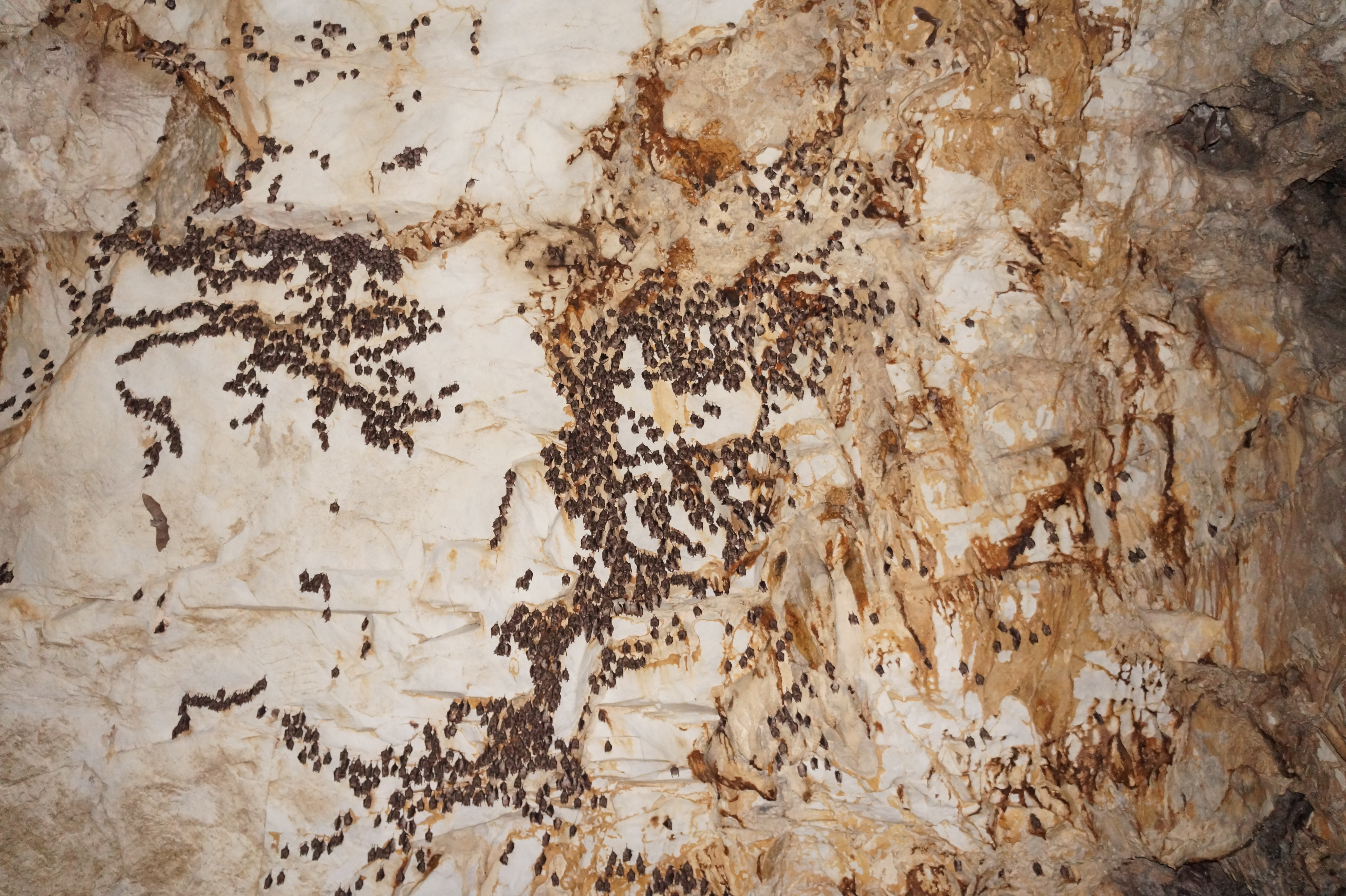 Bats in Laparnica cave in Porece region, Macedonia